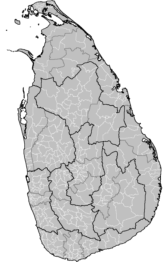 Map of the divisional secretariats of Sri Lanka. Created by Rarelibra 22:44, 6 February 2008 (UTC) for public domain use, using MapInfo Professional v8.5 and various mapping resources.